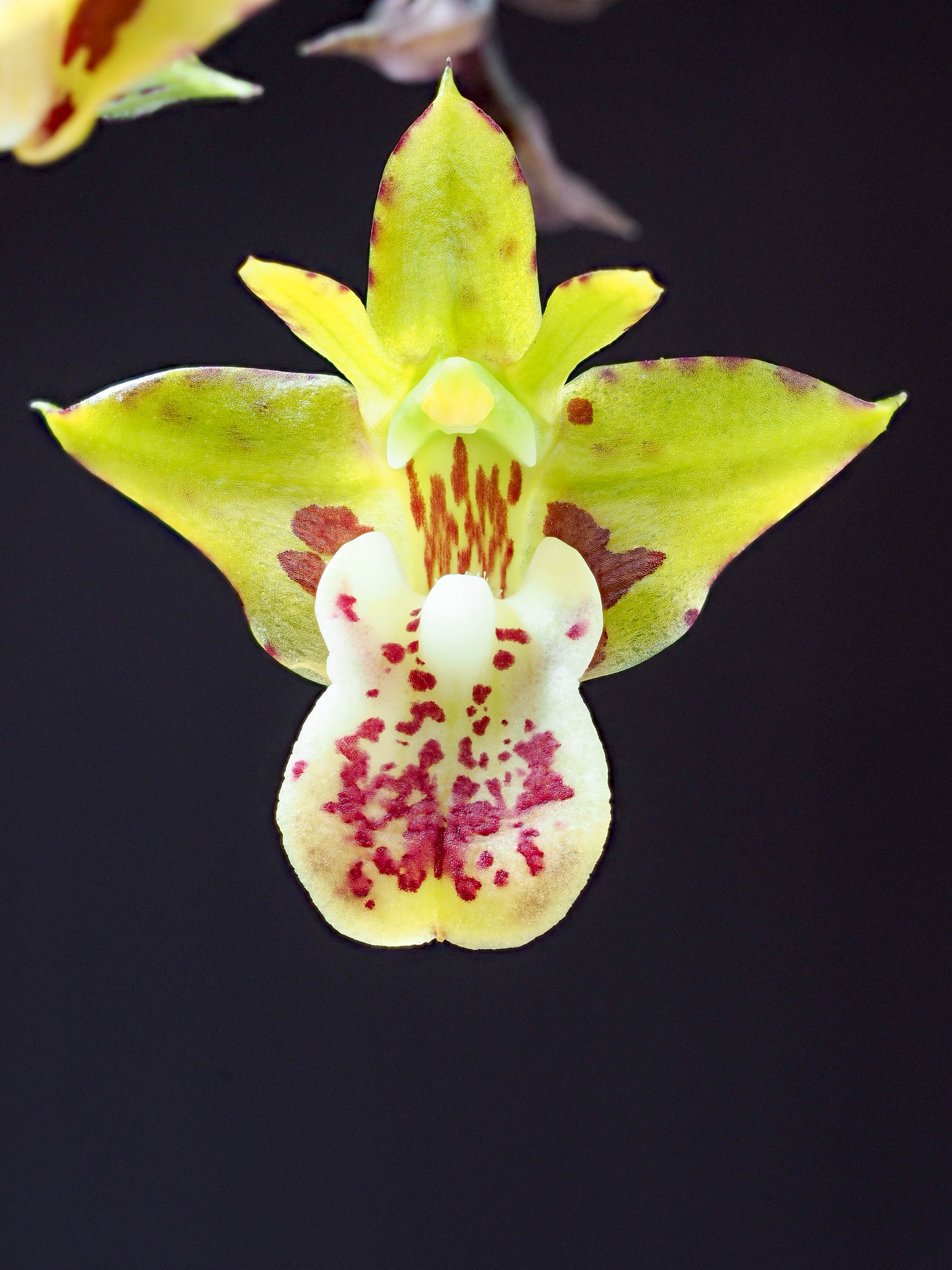 From Afri Orchids. E-M1 in-camera focus stacking with focus differential of 2.